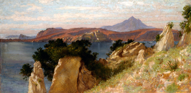 "Cicero's Villa and the Bay of Baiae", Oil on canvas, 13 x 26 ¾ ins (33 x 68 cms)